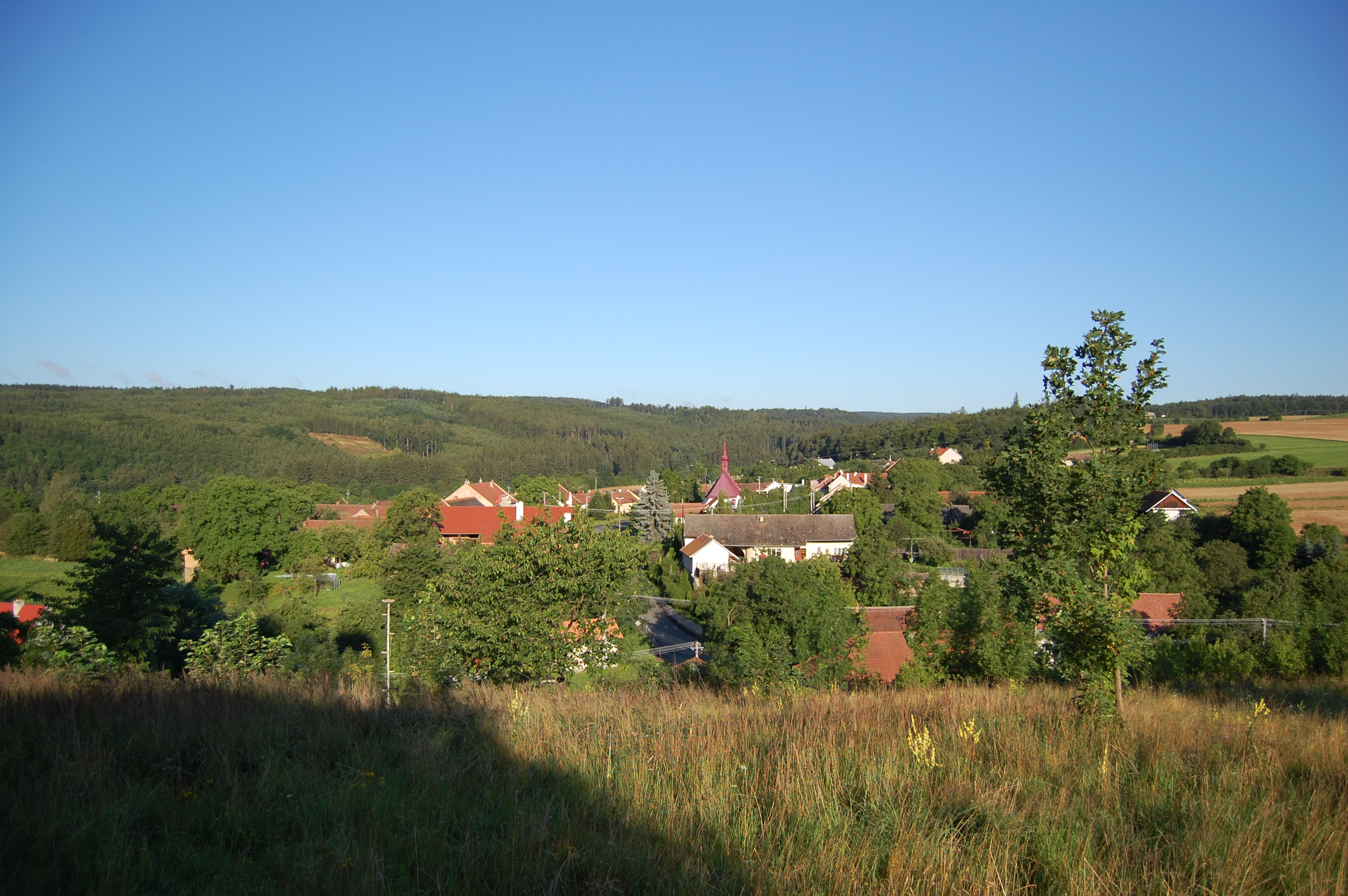 Panorama of village Stínava, Czech Republic